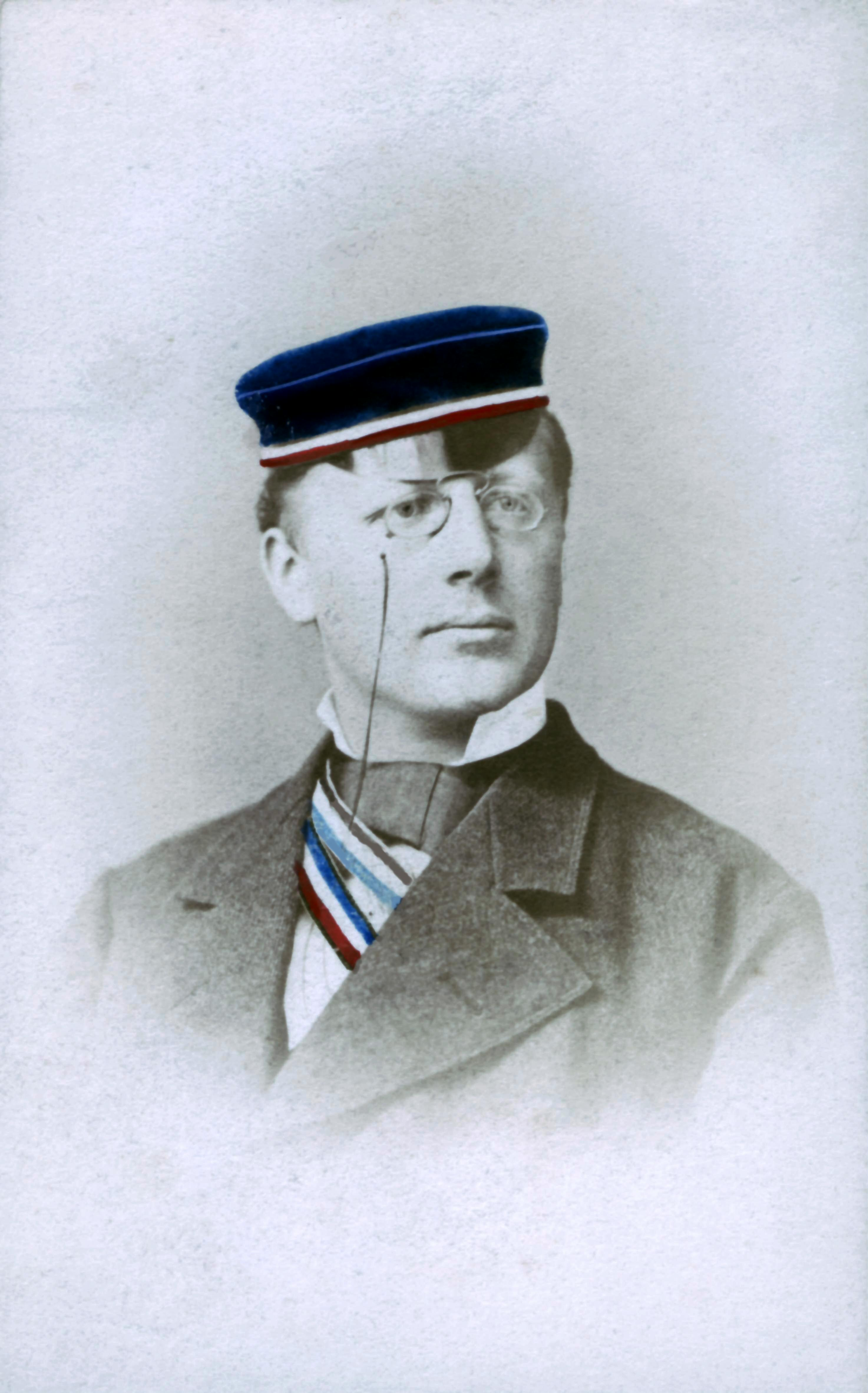 Coloured photography of Josef Bernpointner